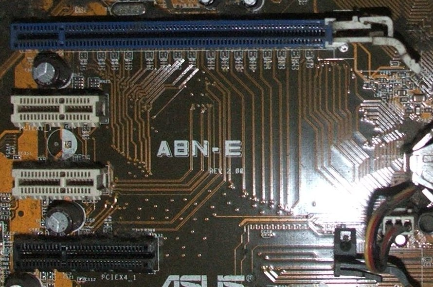 One PCi-E 16x (blue), two 1x (white) and one 4x (black)